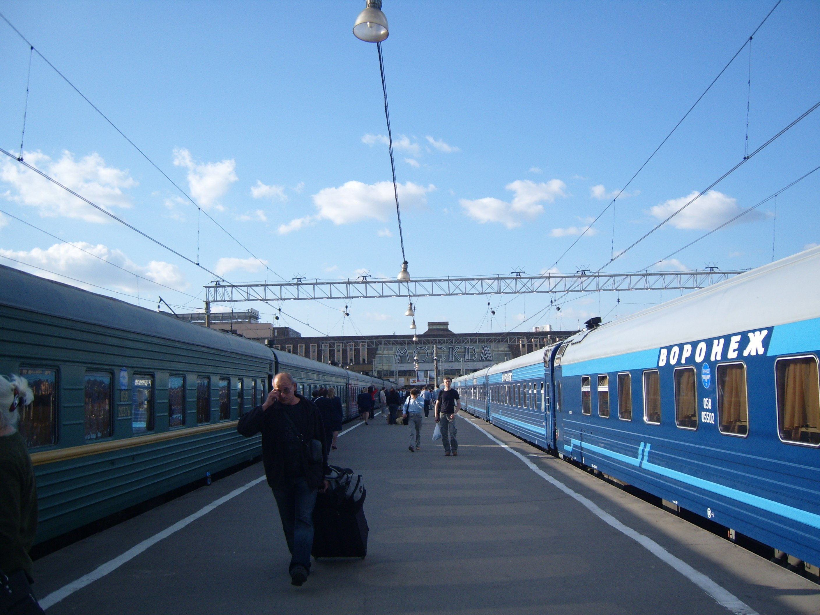 Paweletskiy railway in Moscow